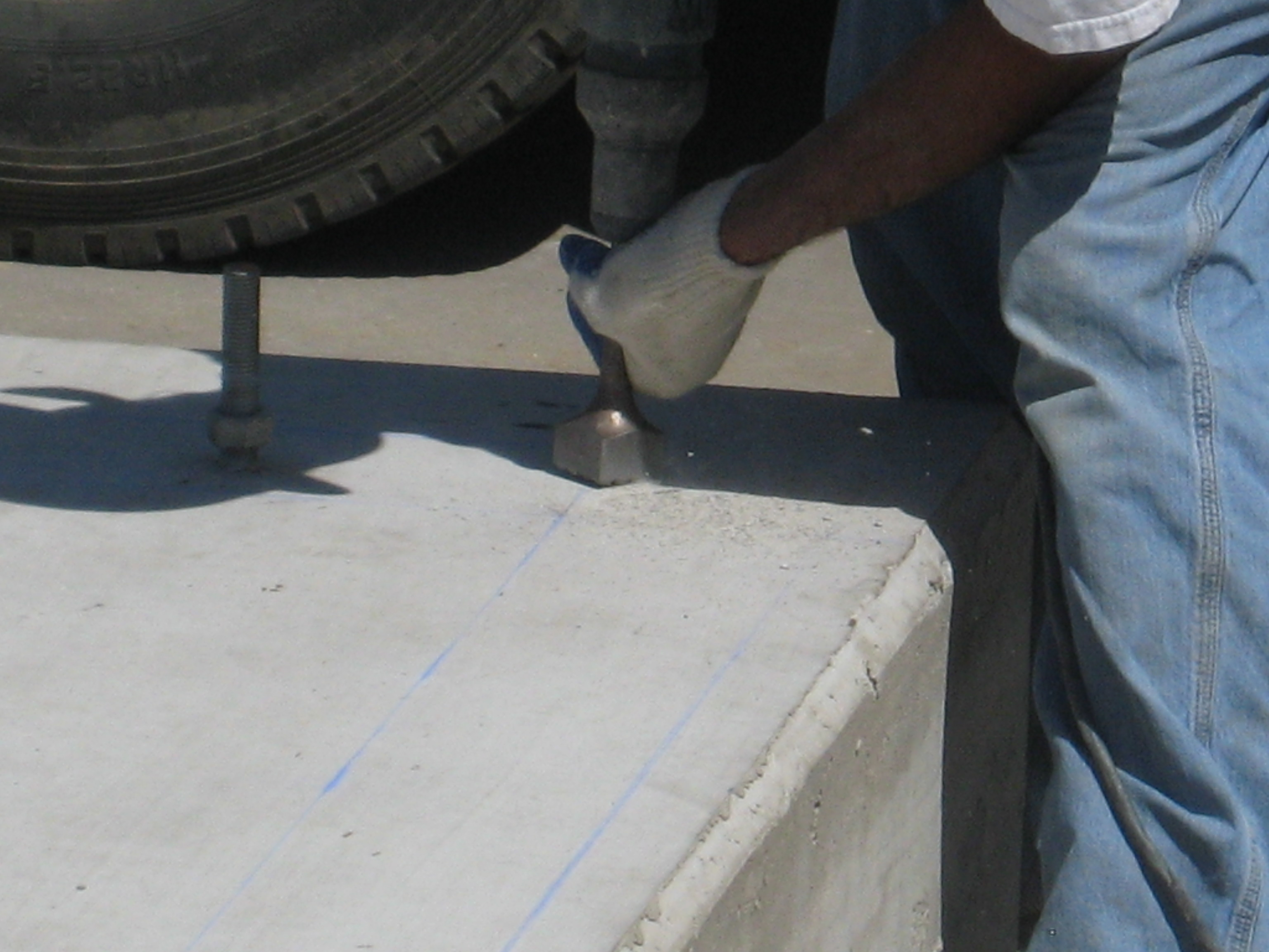 Closeup of worker beginning to scabble a concrete foundation in preparation for grouting underneath a frame for a pump skid.